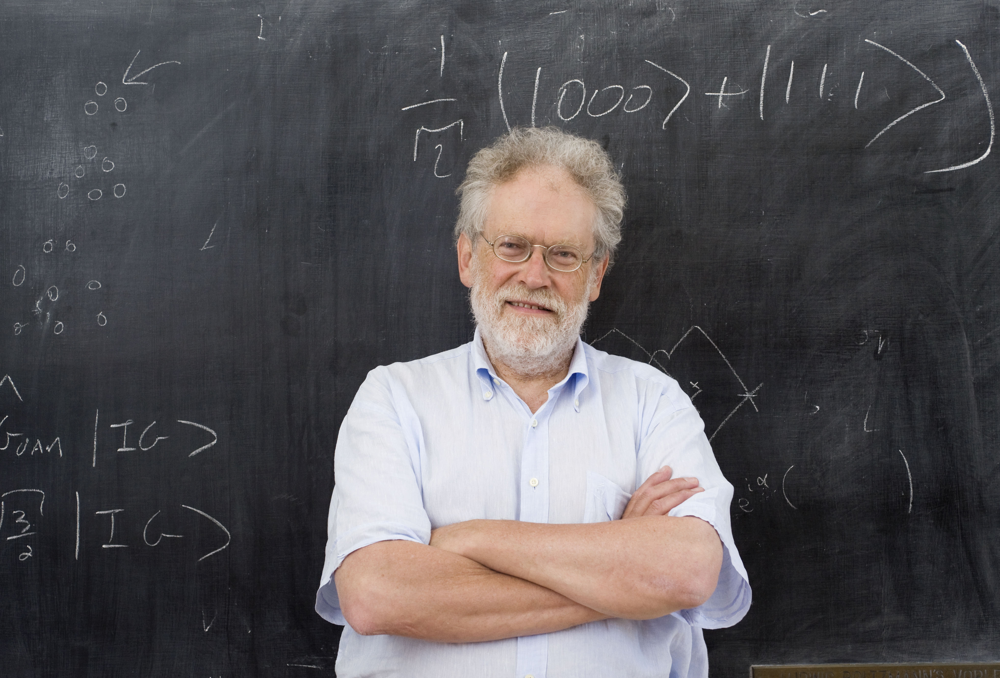 Anton Zeilinger (2011)